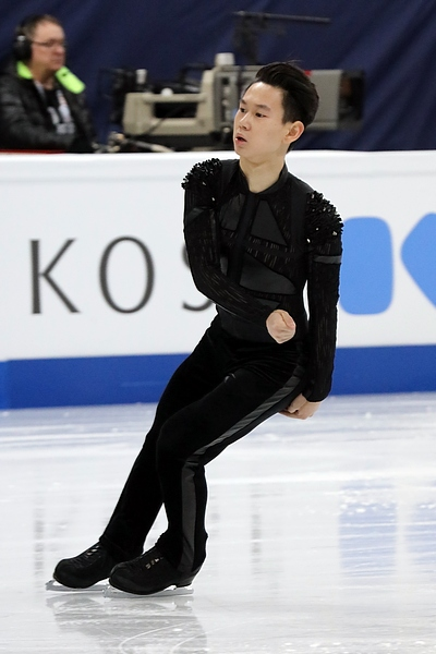 Denis Ten during the 2017 World Figure Skating Championships